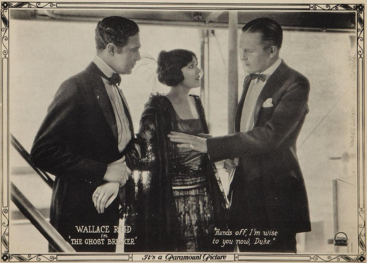 Left to right: Arthur Edmund Carewe, Lila Lee, and Wallace Reid in The Ghost Breaker (1922) - publicity still (cropped)